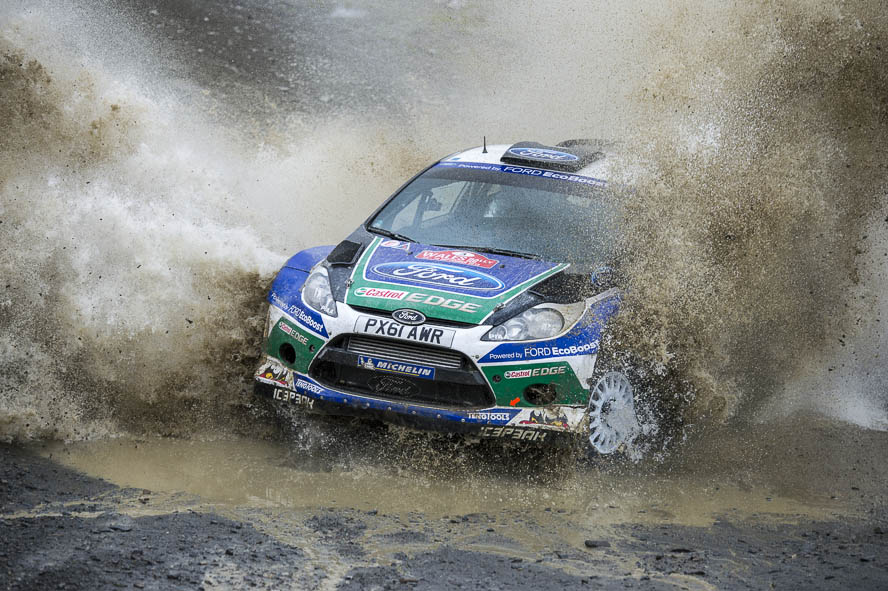 Wales Rally Great Britain 2012 Ford Fiesta RS WRC,Ford WRT,Ford World Rally Team,Hafren Sweet Lamb 2,Jari-Matti Latvala,Miikka Anttila,Motorsport,Rally,Rallye,SS5,WP5,WRC,Wales Rally GB